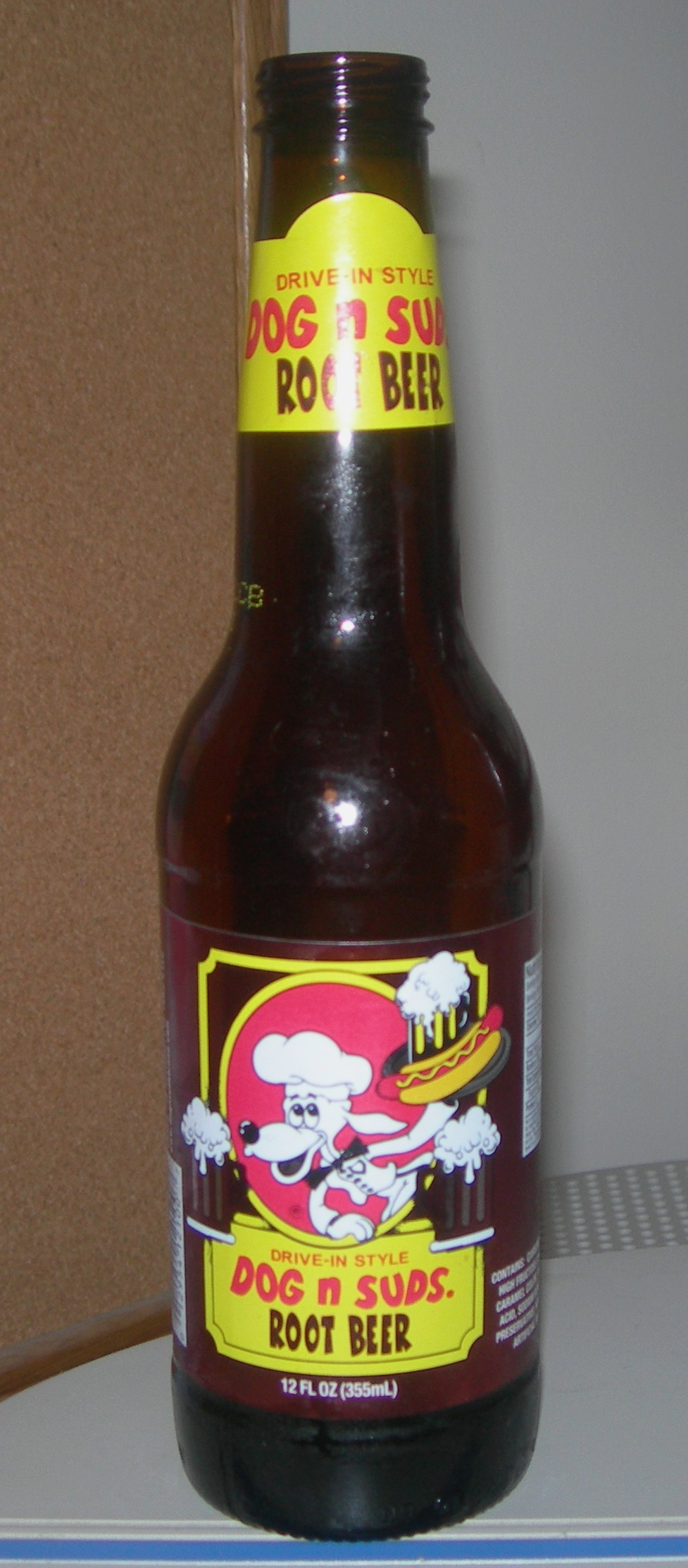 Dog n Suds bottle